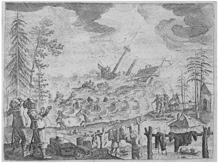 From the travel description Beschreibung Der Neuwen Orientalische Reisen by German diplomat and globetrotter Adam Olearius showing his shipwrecking by the island of Hogland in 1647